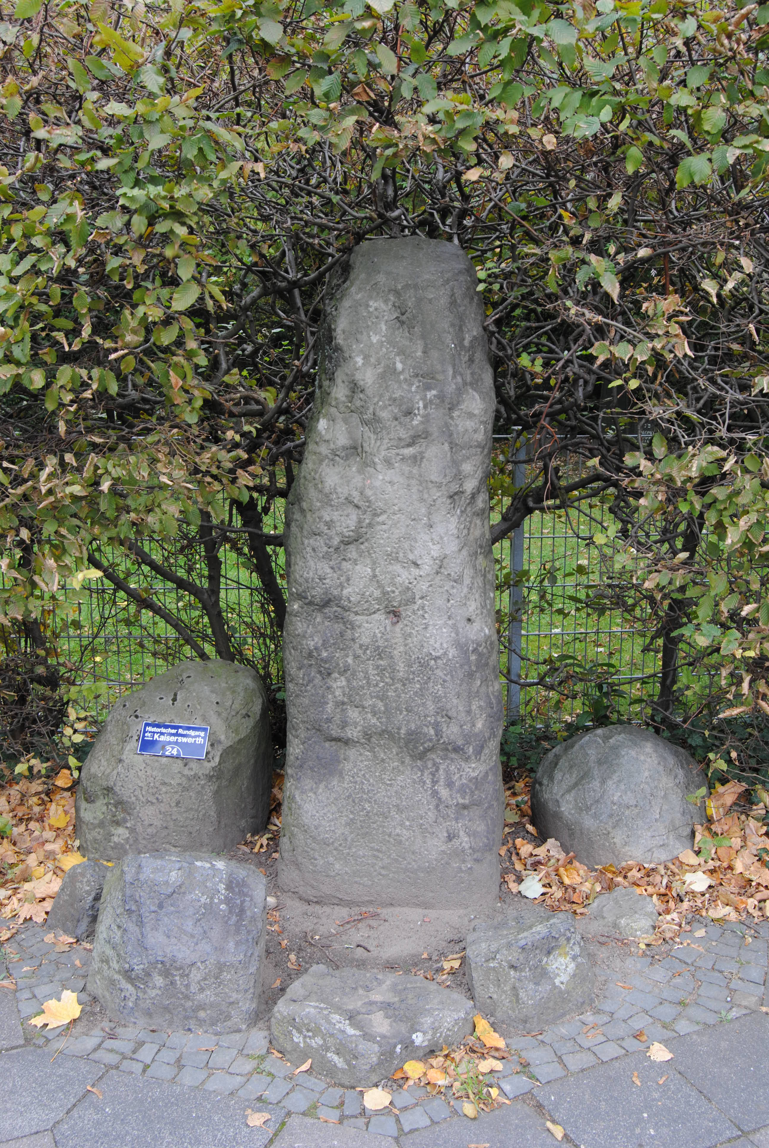 Düsseldorf (North Rhine-Westphalia, Germany) – Kaiserswerth – menhir of 2000–1500 BC This image shows a heritage building in Germany, located in the North Rhine-Westphalian city Düsseldorf (no. 950). This photograph was taken with a Nikon D3000